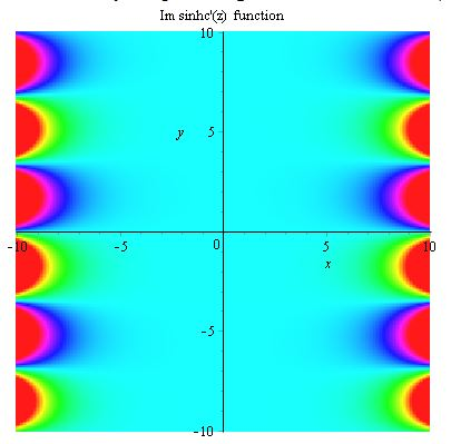 Sinhc'(z) Im plot